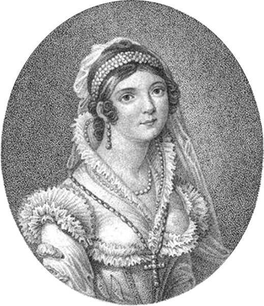 Meyerbeer’s beloved Cathinka Buchwieser as Princess of Navarre in Jean de Paris by Boeildieu 1813